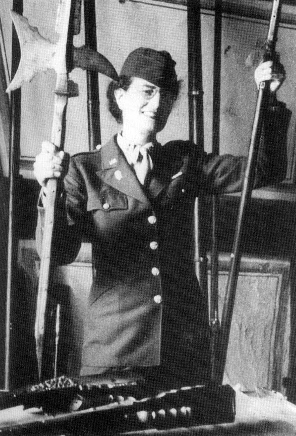 Photograph of Edith Standen, Monuments, Fine Arts, and Archives Section of the Office of Military Government, United States, 1946